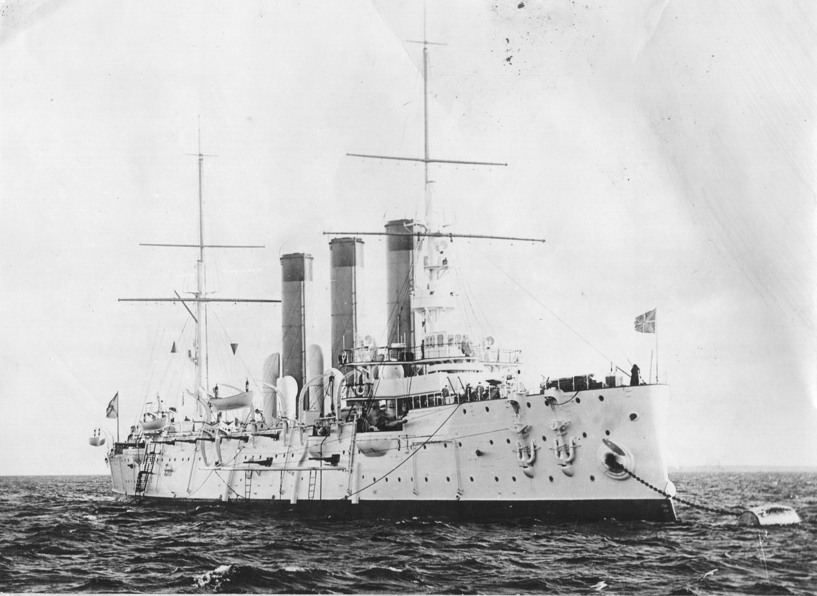 Imperial Russian cruiser Diana.